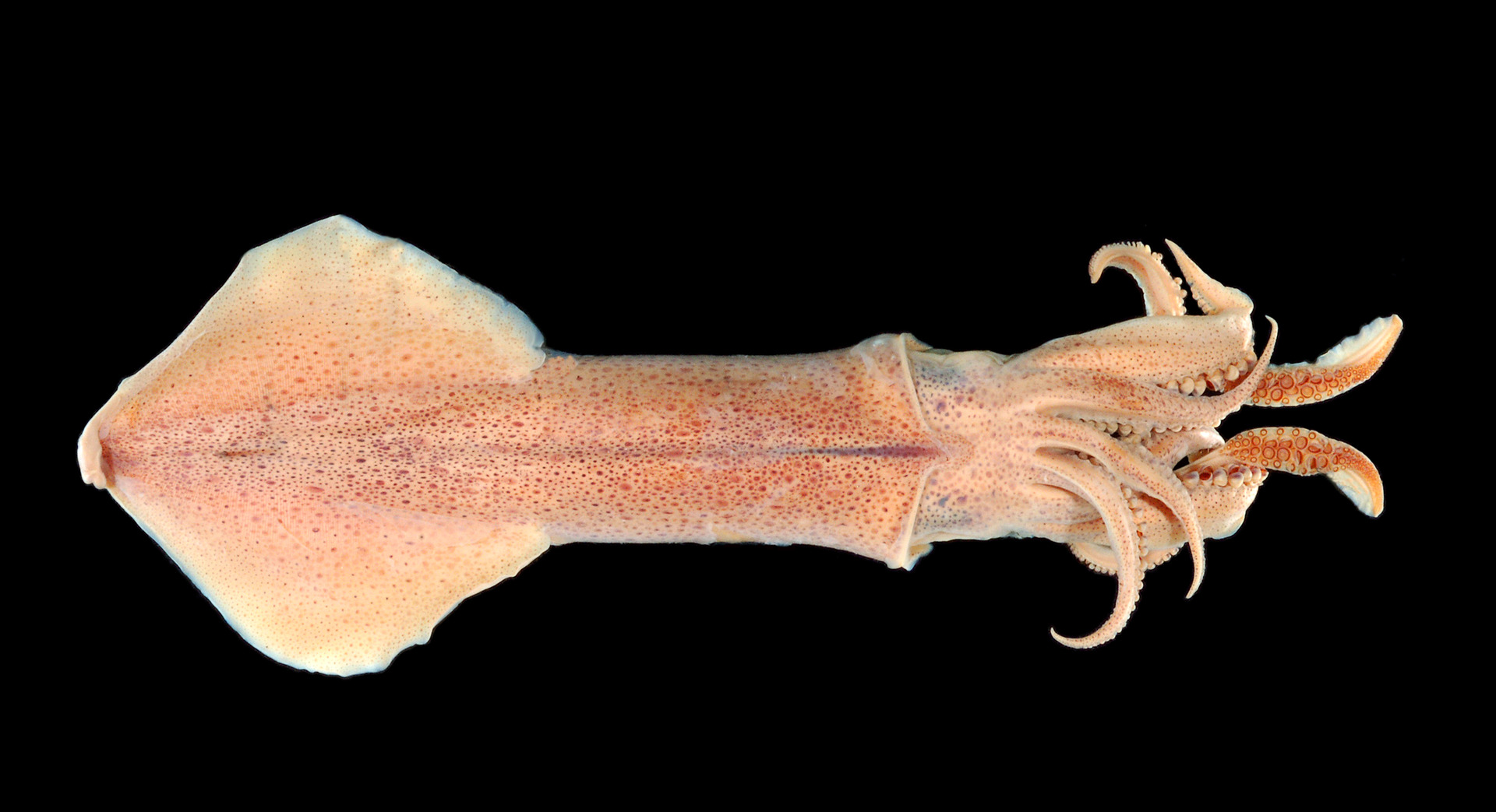 PRESERVED_SPECIMEN; ; ; 70% alc.; Det. by: Gilbert L. Voss; GM Image; IZ number 40907; lot count 1; 1932-08-05T00:00:00Z